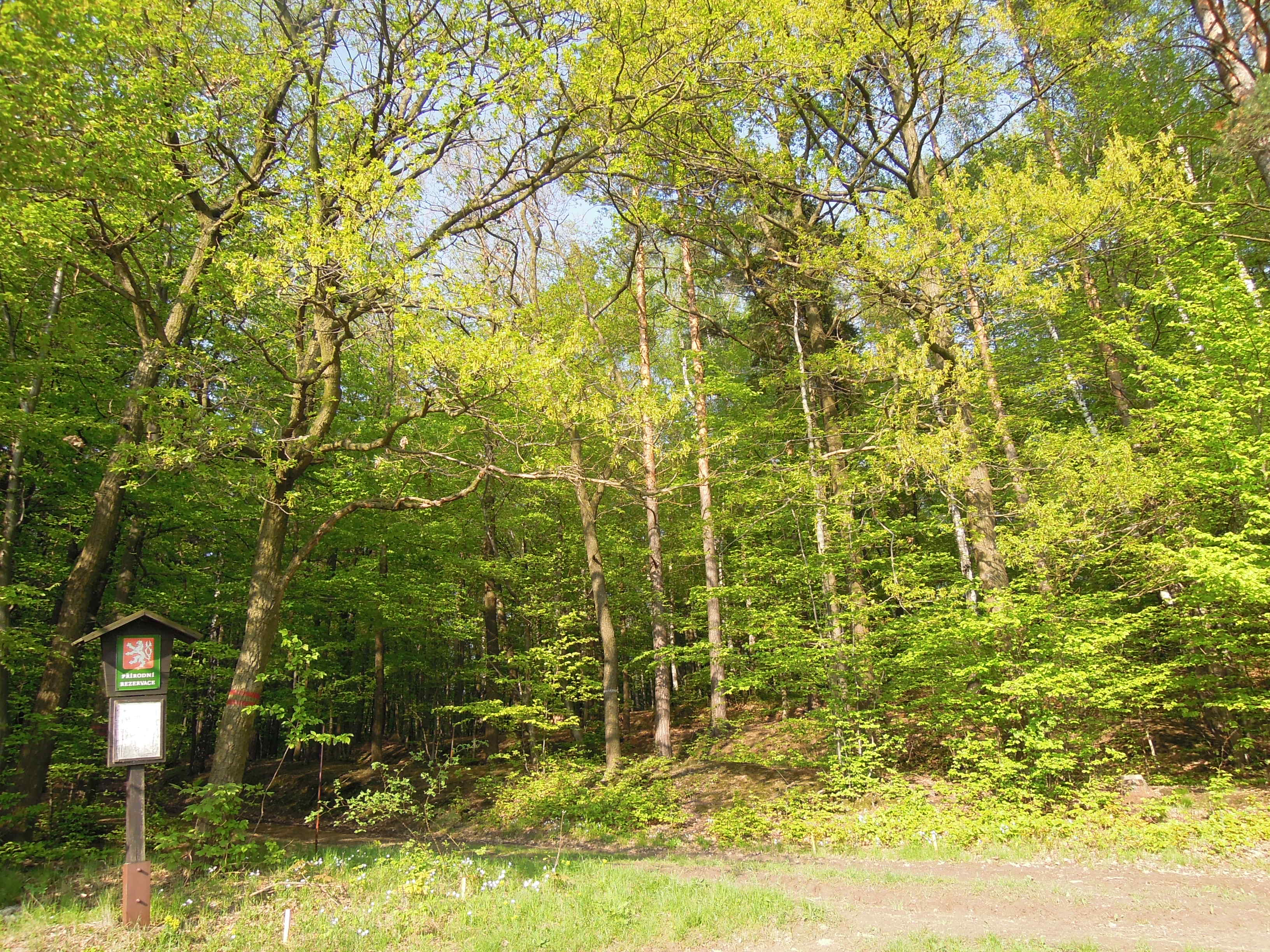 Nature reserve Doubek in Zámrsky, Přerov District, Olomouc Region, Czech Republic